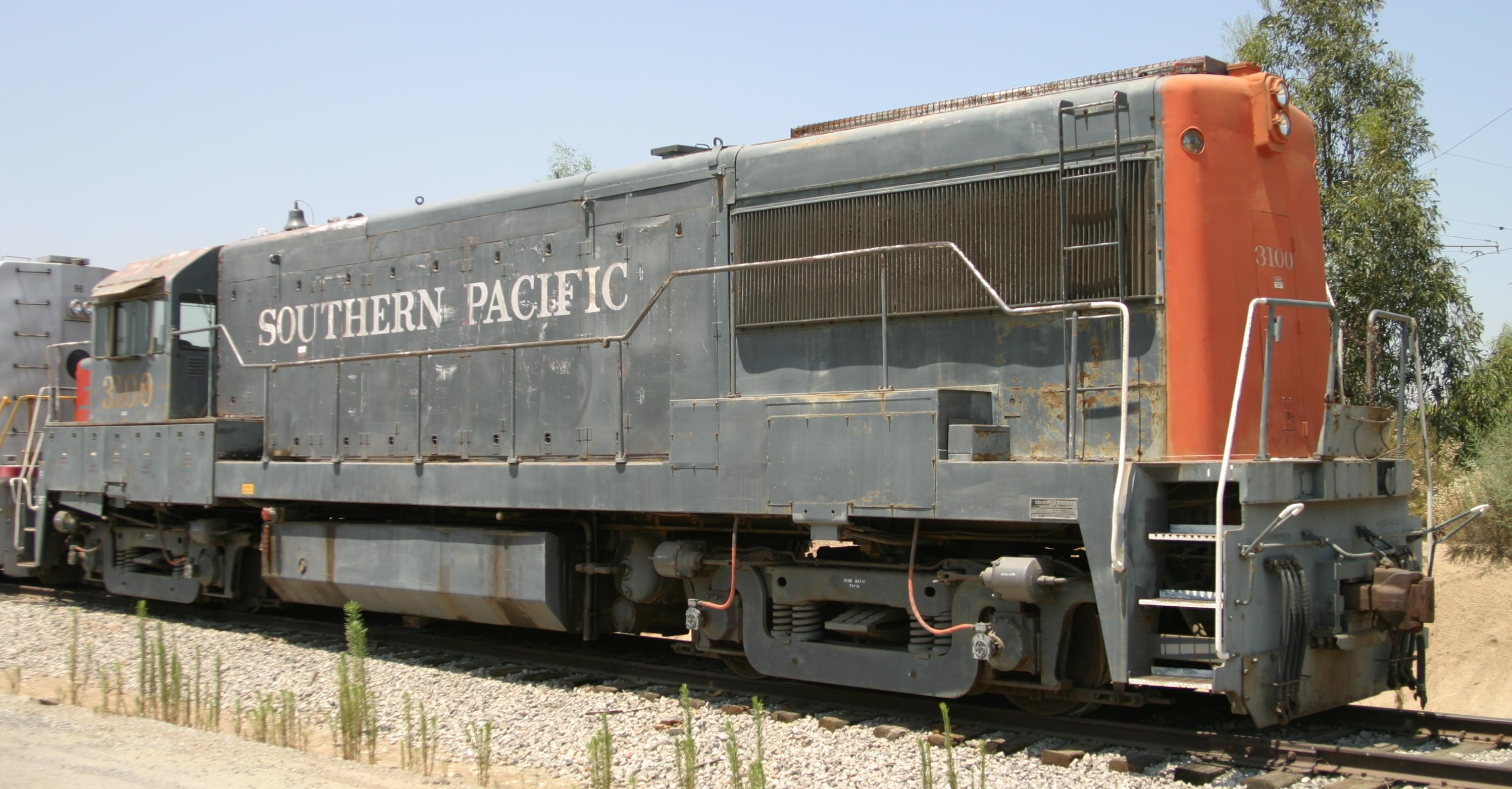 GE U25B locomotive at the Orange Empire Railway Museum in Perris, California. Taken 8/4/05 by User:Pretzelpaws with a Canon EOS-10D camera. Cropped 8/24/05 using the GIMP.